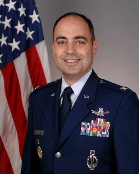 Colonel George R. Farfour